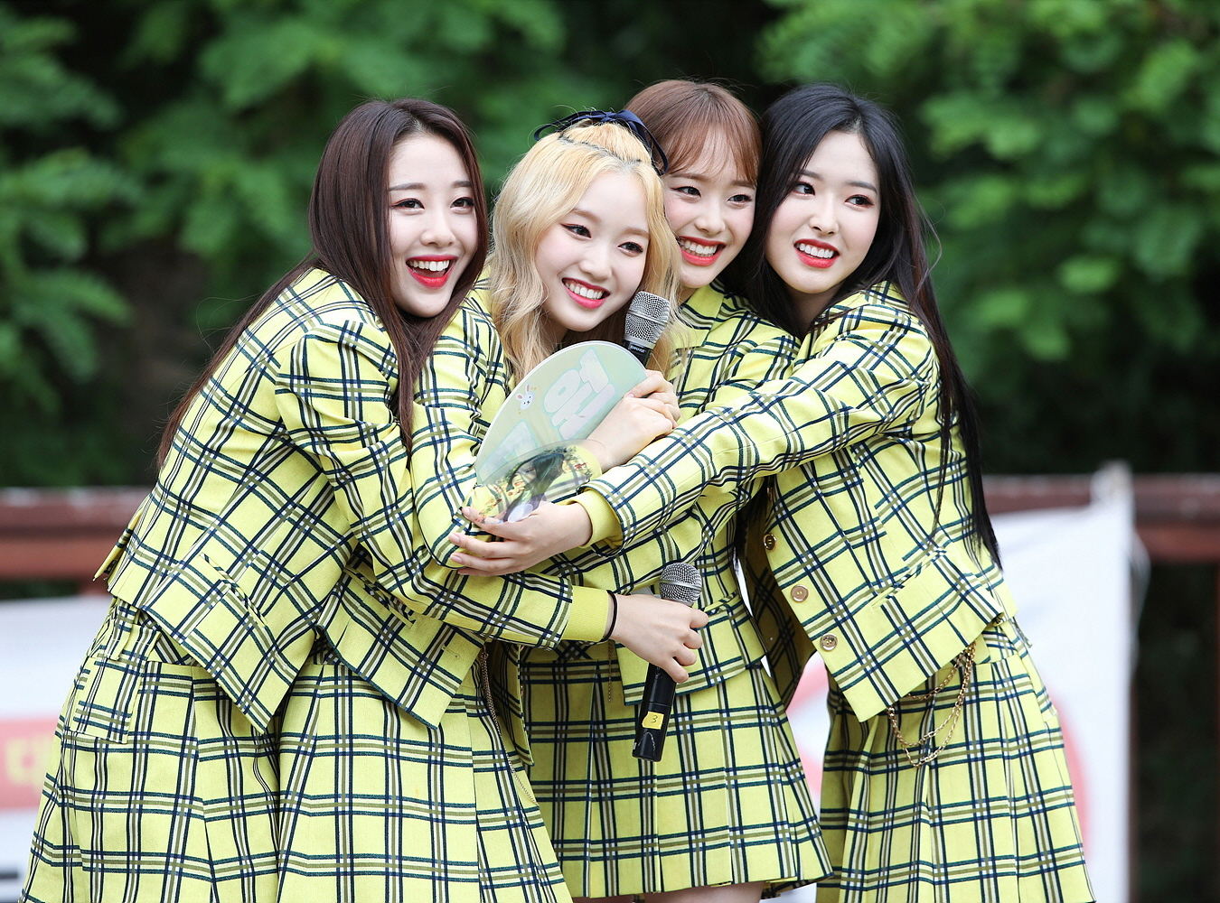 180610 이달의소녀 인기가요 미니팬미팅 사진